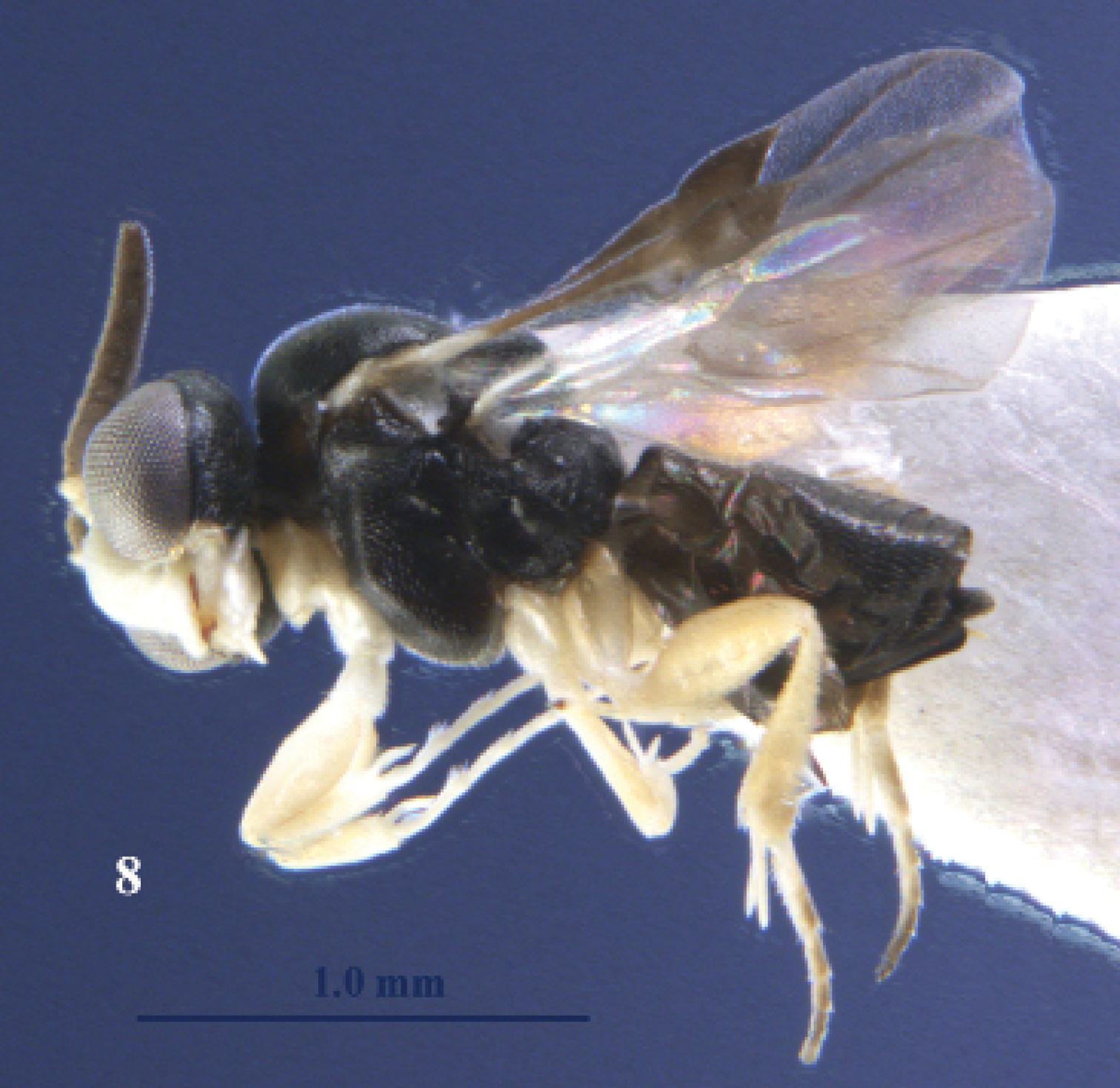 Newly discovered species of parasitic wasp that deposits eyes in ants Other information Explicitly stated in the research paper (in source) that the work is under CC-BY-3.0